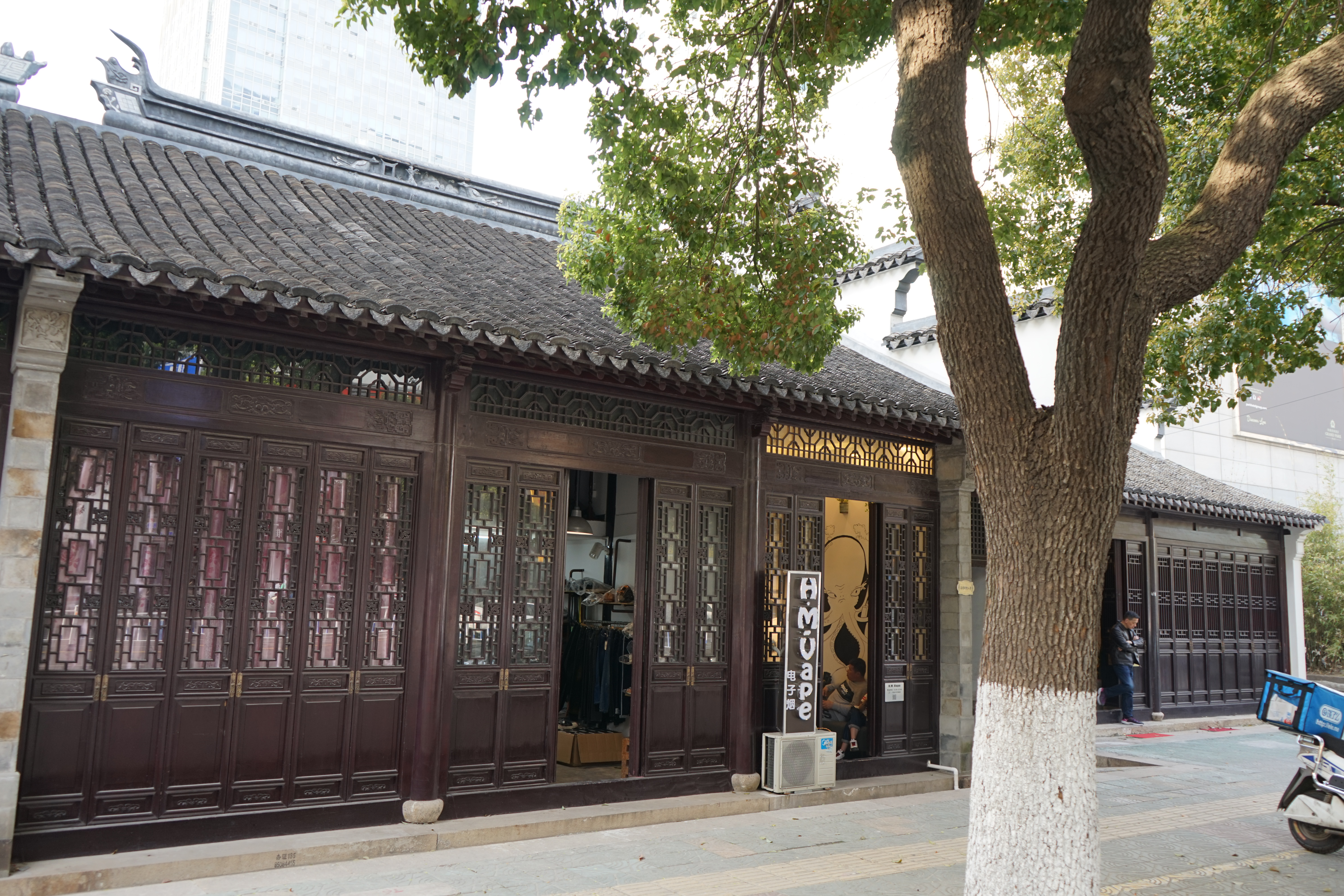 No.10 Xianqian West Street, former residence of Lu Dingyi. Lu's grandfather bought it during Guangxu Emperor's reign.